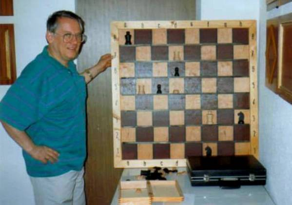 Manfred Zucker – chess composer, at a session of German chess composers in Augustusburg (Germany)